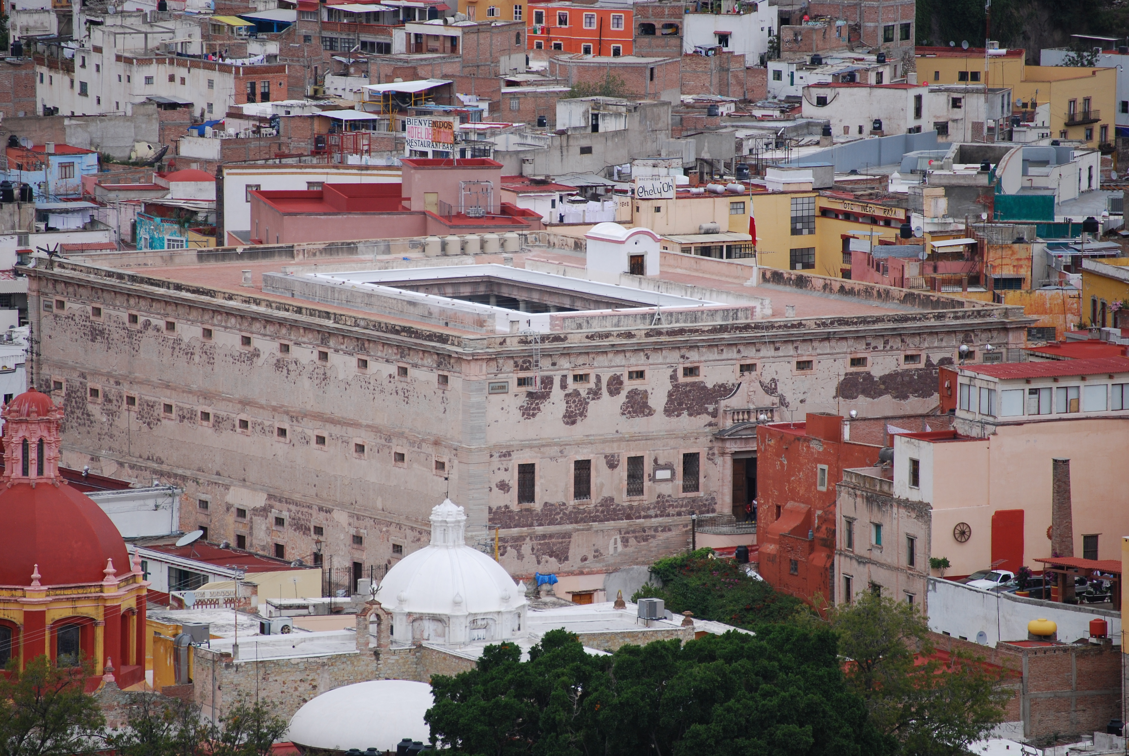 View of the Alhondiga de Granaditas from the Pipila Monument in Guanajuato, Mexico